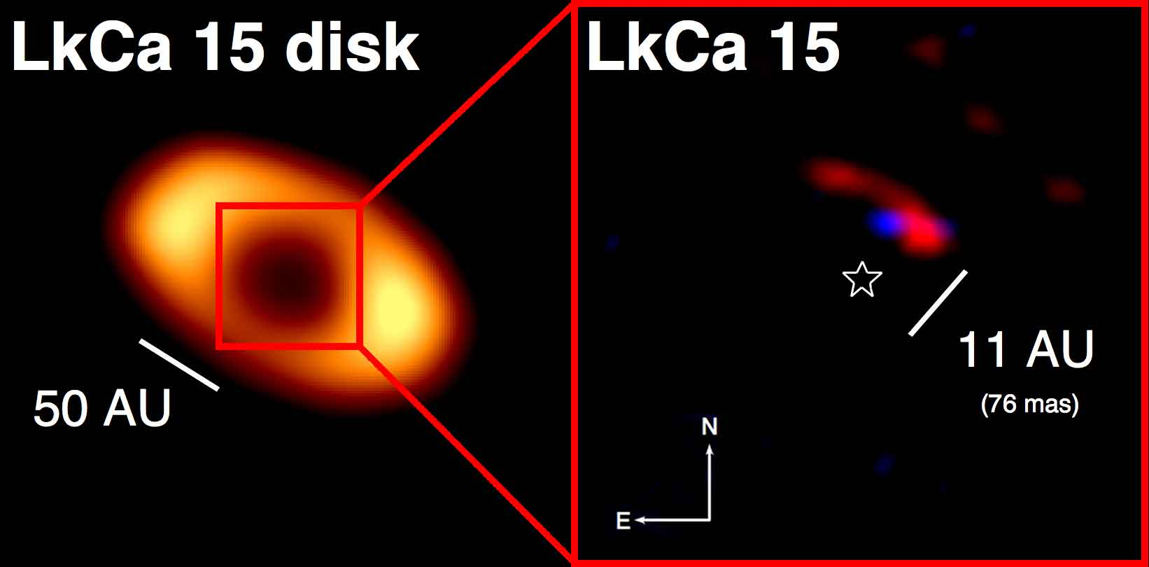 The transitional disk around the star LkCa 15. All of the light at this wavelength is emitted by cold dust in the disk. the hole in the center indicates an inner gap with radius of about 55 times the distance from the Earth to the Sun. Right: An expanded view of the central part of the cleared region, showing a composite of two reconstructed images (blue: 2.1 microns, from November 2010; red: 3.7 microns) for LkCa 15. The location of the central star is also marked.